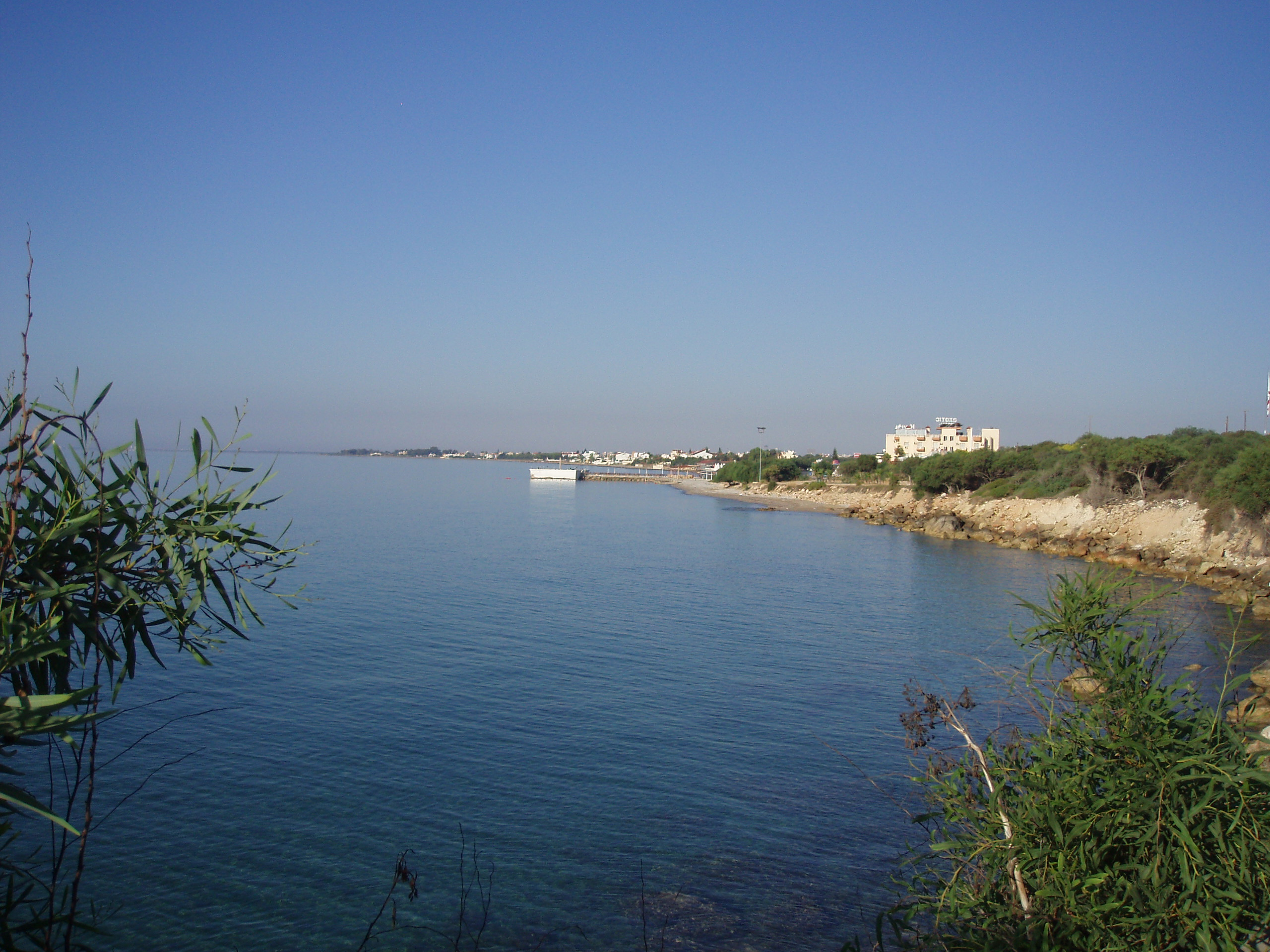 Bahceler - view from Bogaz